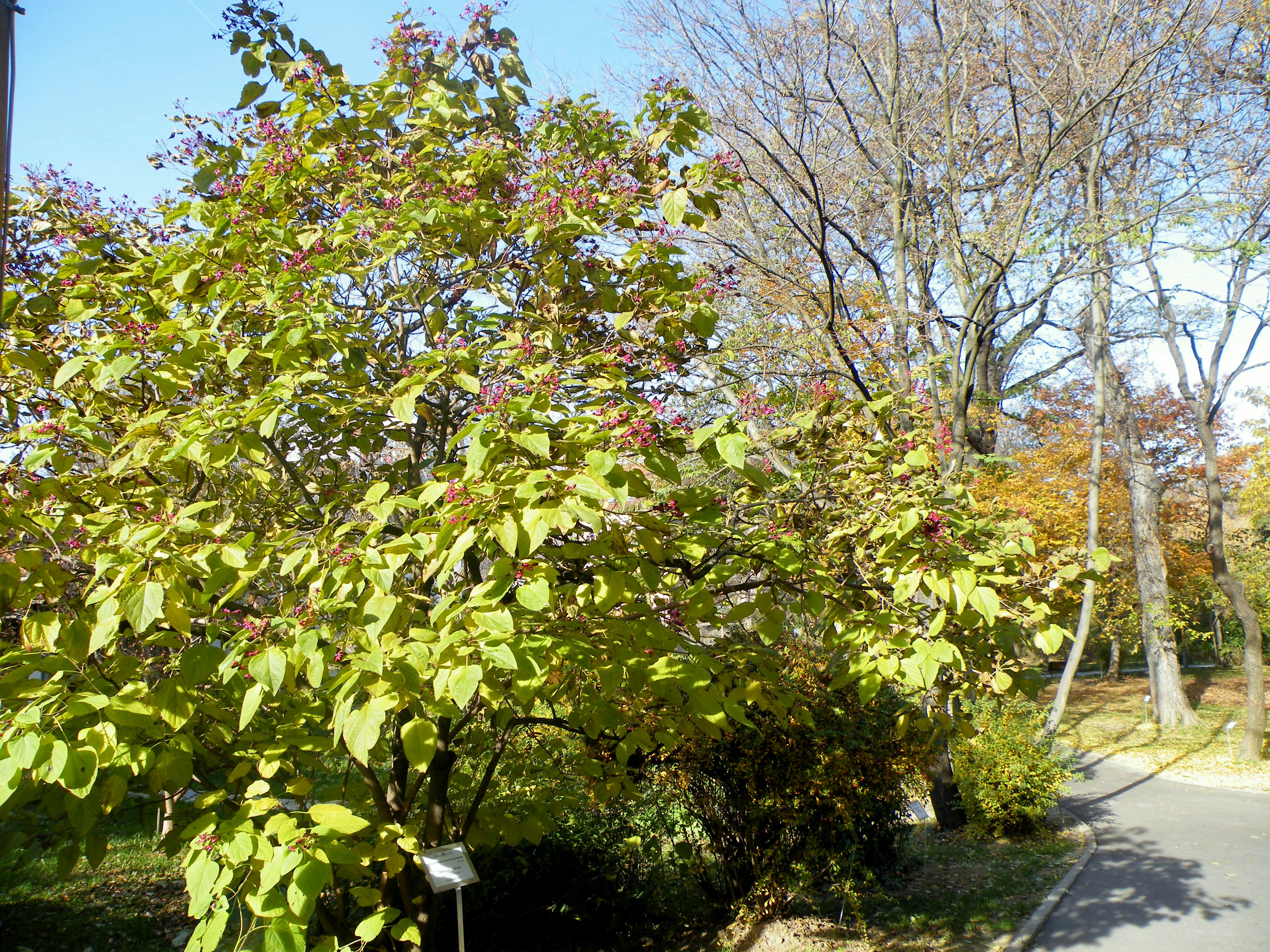 Clerodendrum trichotomum (harlequin glorybower, glorytree, peanut butter tree) is a species of flowering plant in the genus Clerodendrum. This media file is produced by Wikipedian in Residence in Botanical Garden Jevremovac in 2015.